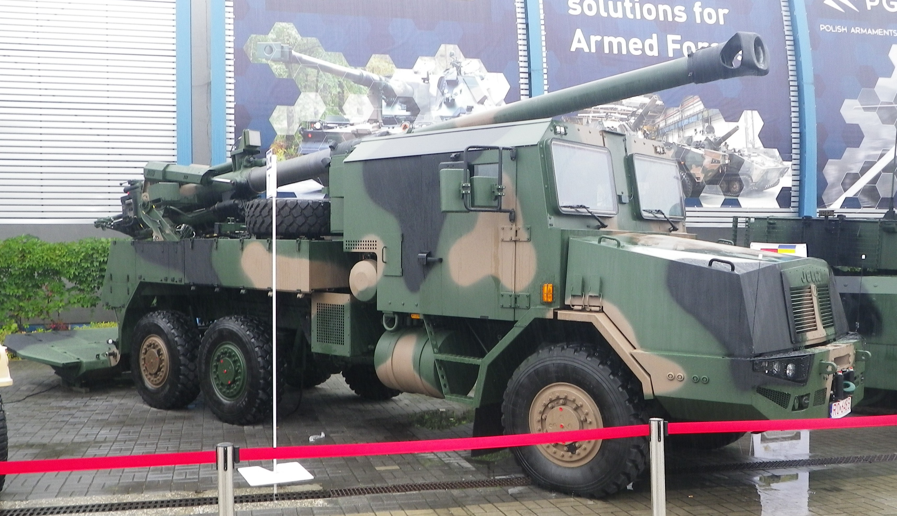 Polish 155mm howitzer Kryl (prototype)